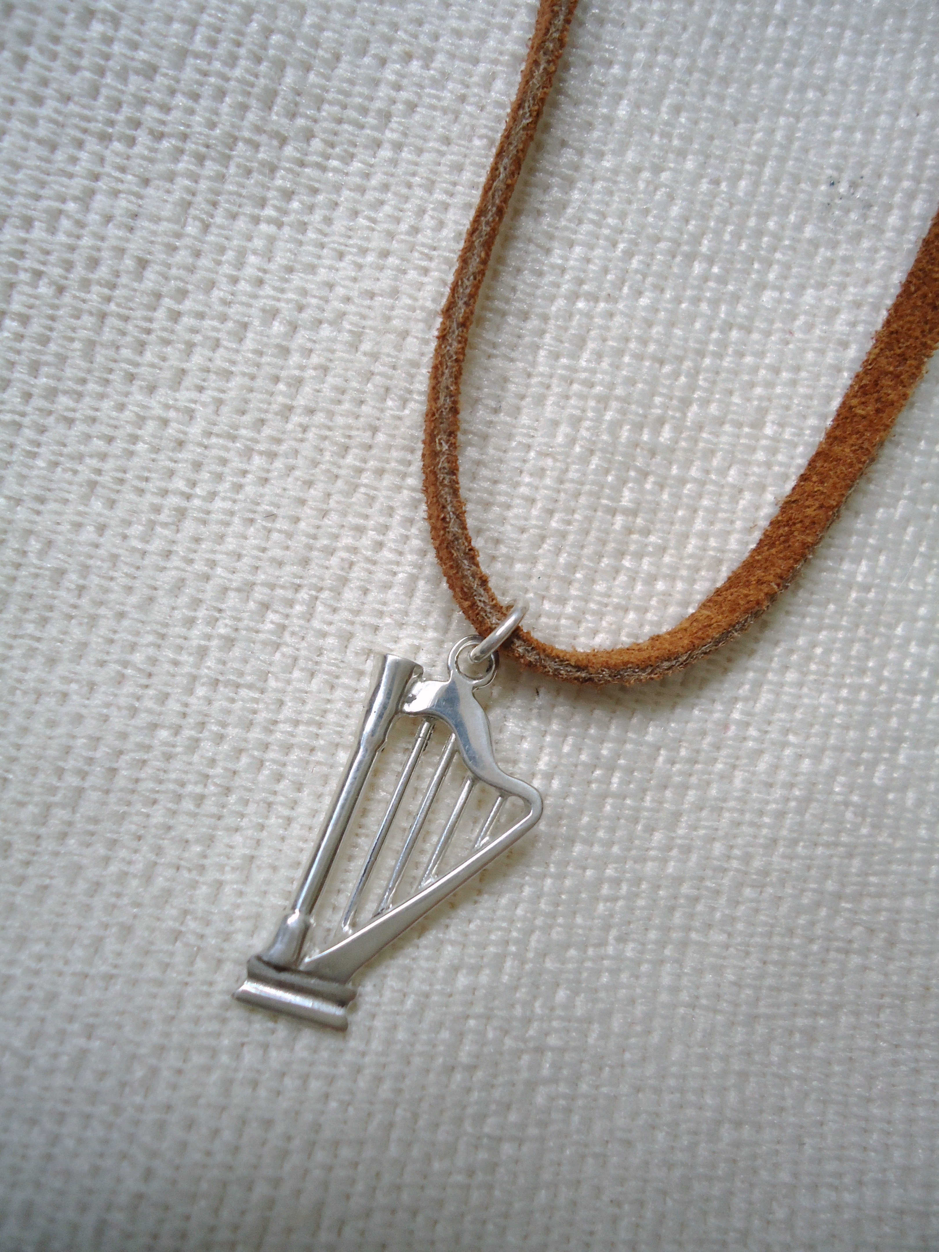 Silver harp pendant. Made by Mauro Cateb, Brazilian jeweler.